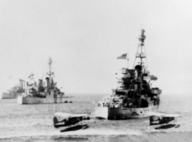 The Australian cruiser HMAS Canberra (D33) (left), and U.S. Navy cruisers USS Chicago (CA-29) (centre) and USS Salt Lake City (CA-25) (right) at anchor at Brisbane, Australia, in May 1942. Two Curtiss SOC Seagull floatplanes fly low past the stern of the right-hand cruiser. Along with HMAS Australia (D84) and other ships, they formed Task Force 44 which patrolled the Coral Sea during the battle of the Coral Sea.